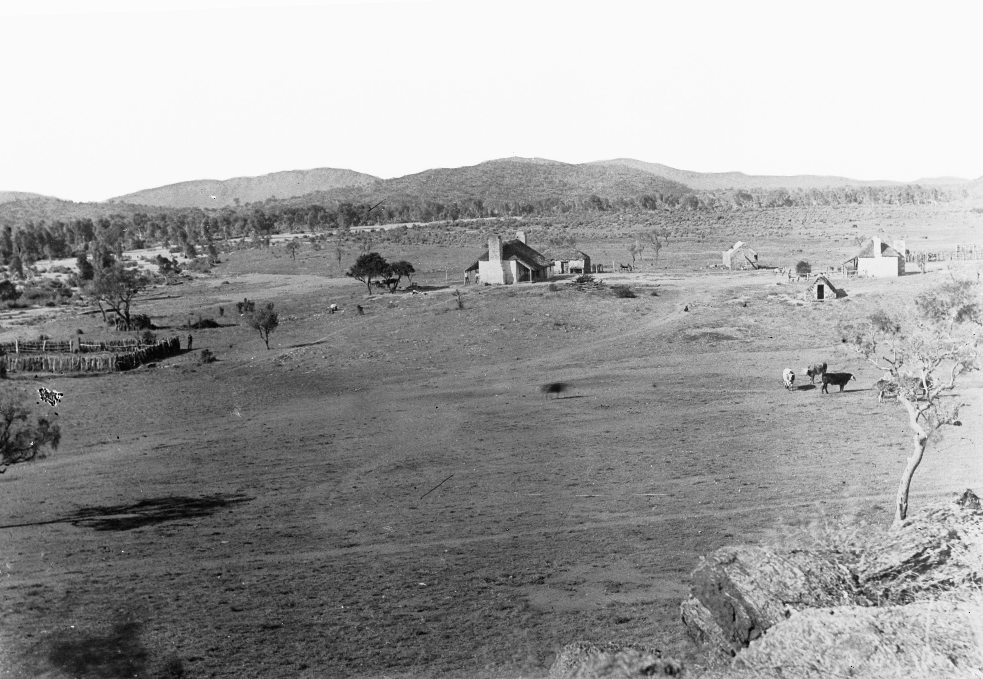 Undoolya Station, MacDonnell Ranges, c. 1905.